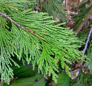 The characteristically flattened branch of a California Incense-cedar Calocedrus decurrens. Siskiyou Mountains west of Grants Pass, Oregon, USA.